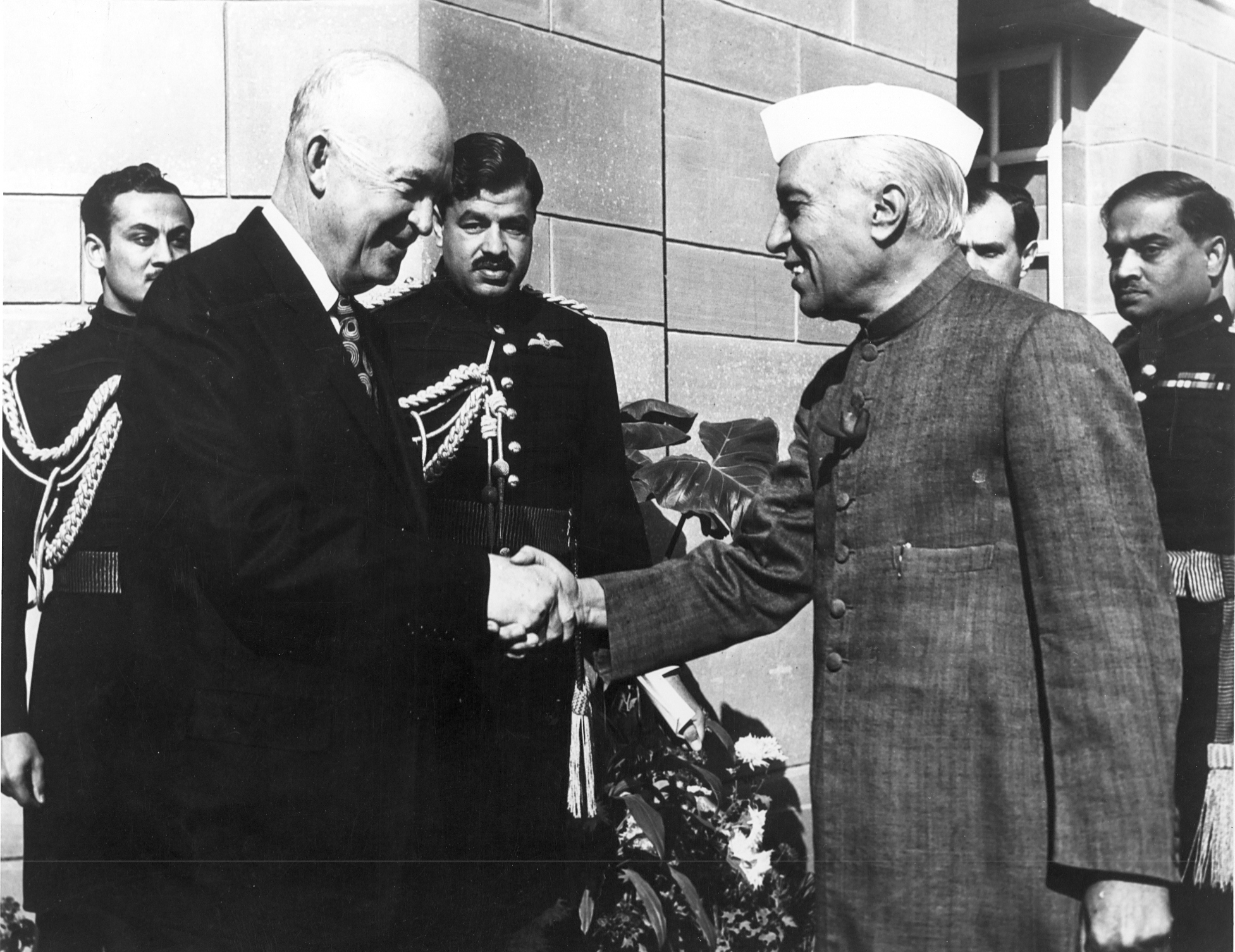 Prime Minister Jawaharlal Nehru receiving U.S. President Dwight D. Eisenhower at Parliament House, before the President addressed a joint session of Indian Parliament.